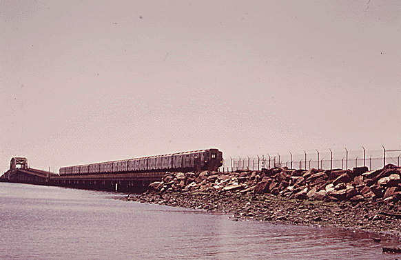 A New York City Subway train is crossing Jamaica Bay. June 1973.